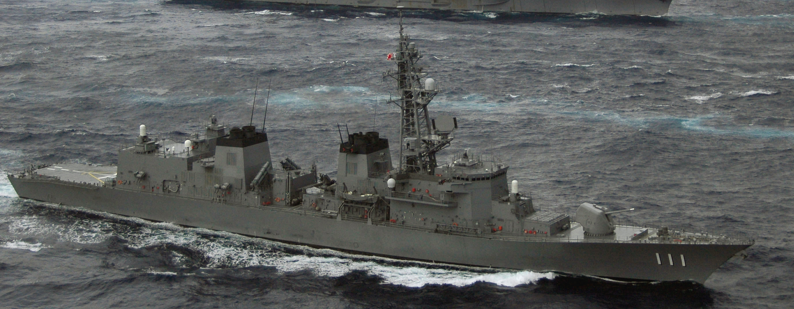 JS Ōnami (DD-111), a Japanese Takanami class destroyer at sea.